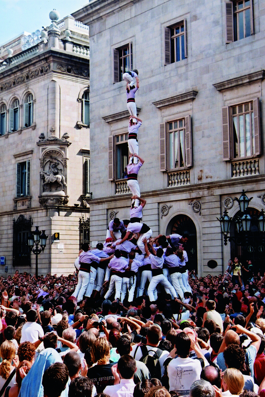 4 of 9 with "folre" and "agulla" maked by Minyons de Terrassa in Barcelona